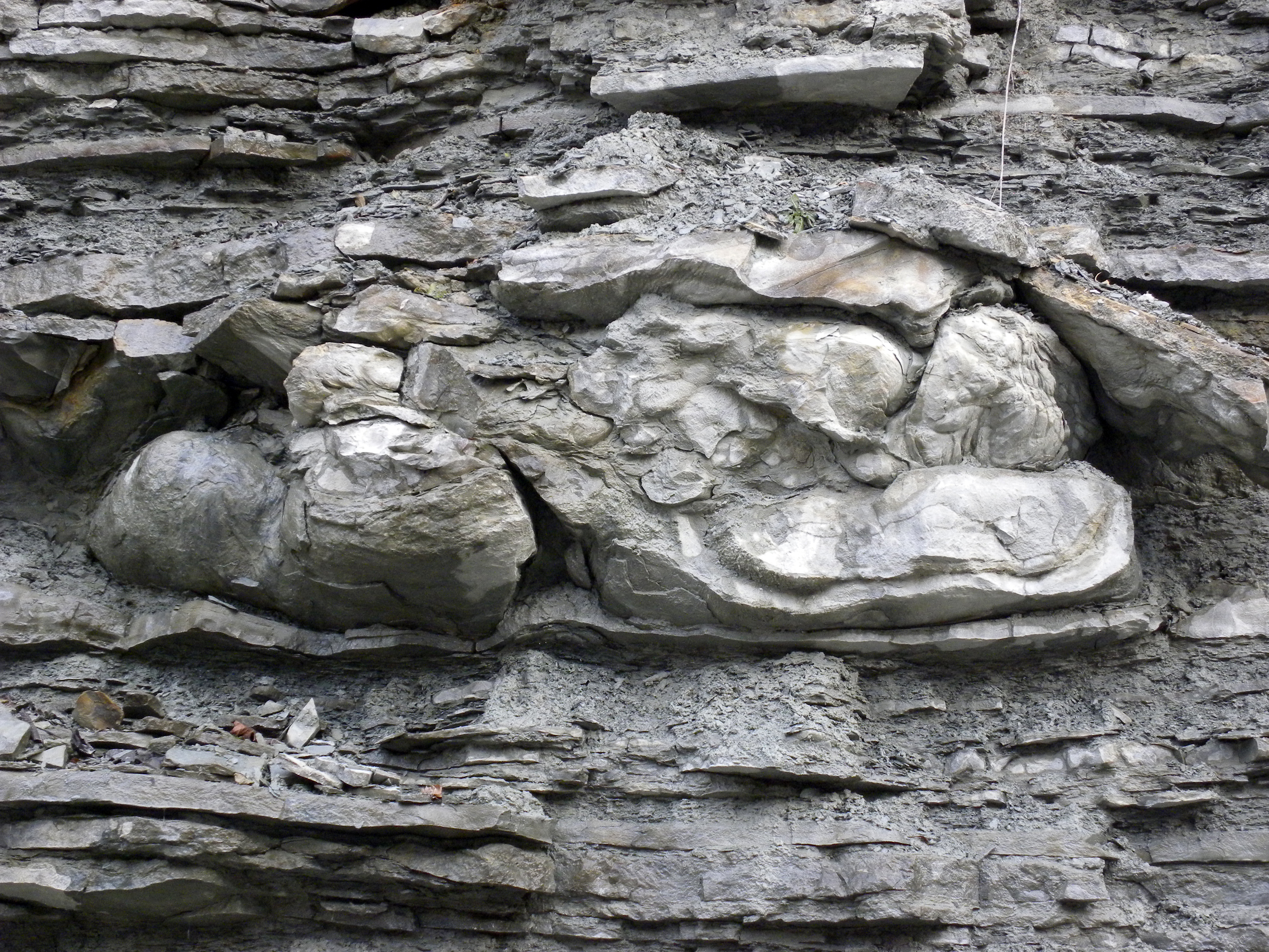 Seismite in the Upper Ordovician of northern Kentucky.